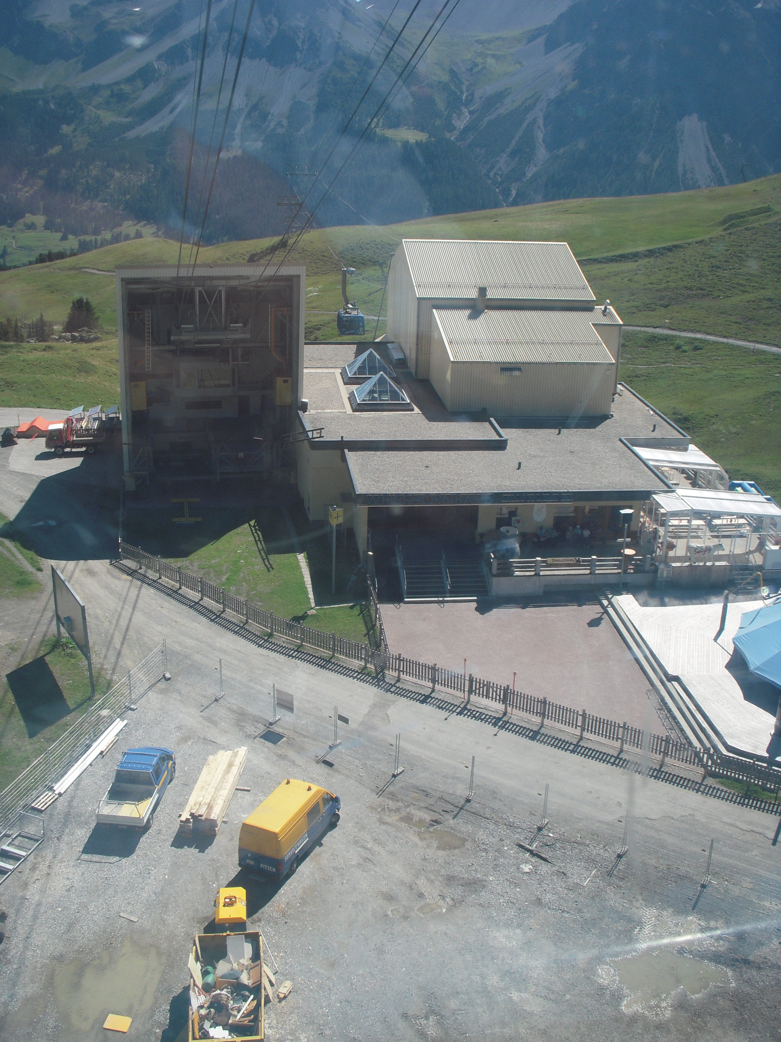 The central station at the Arosa - Weisshorn Cableway, Arosa, Graubünden, Switzerland. August 17, 2012.